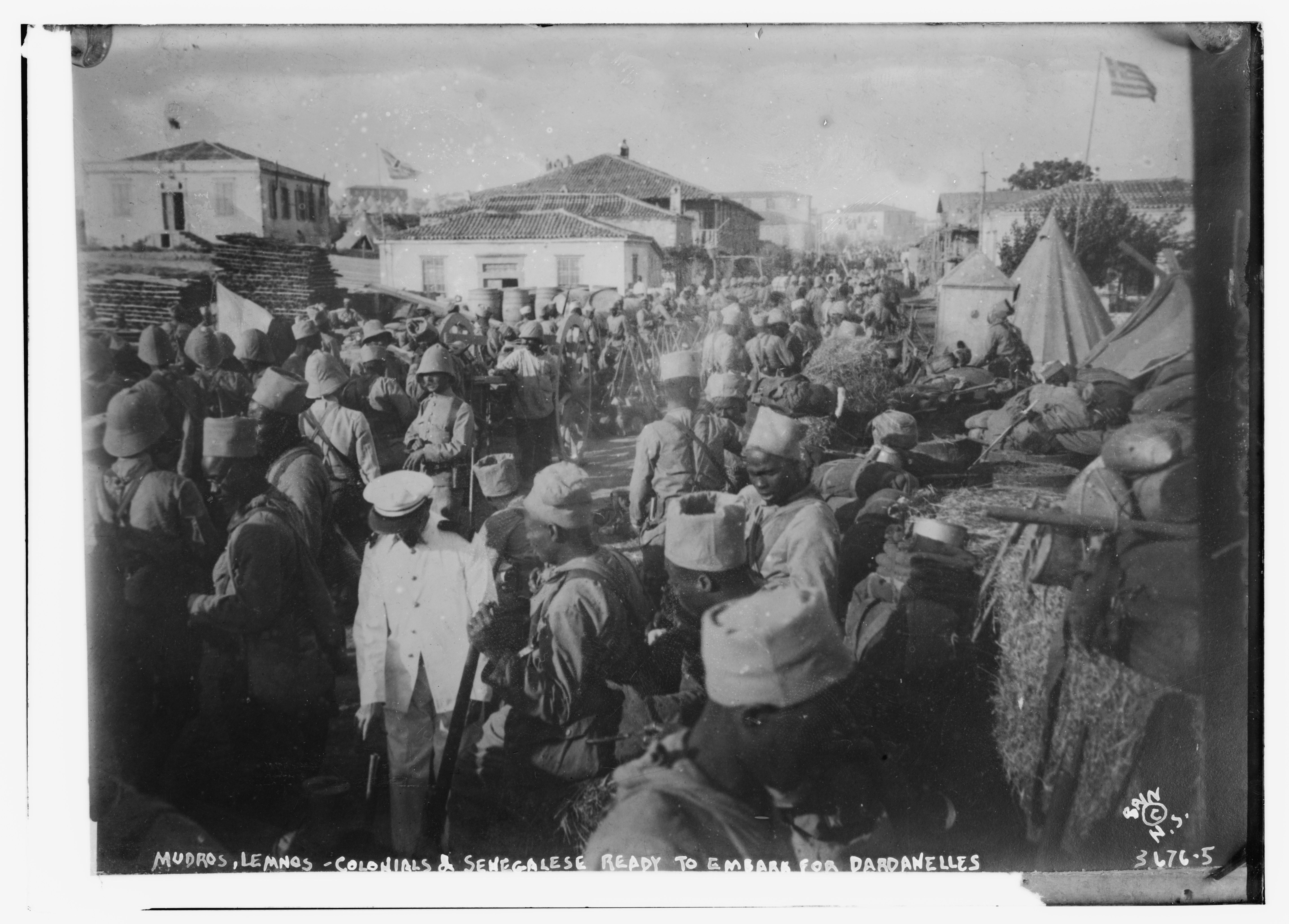 Title: Mudros, Lemnos - Colonials and Sengalese ready to embark for Dardanelles Abstract/medium: 1 negative : glass ; 5 x 7 in. or smaller.